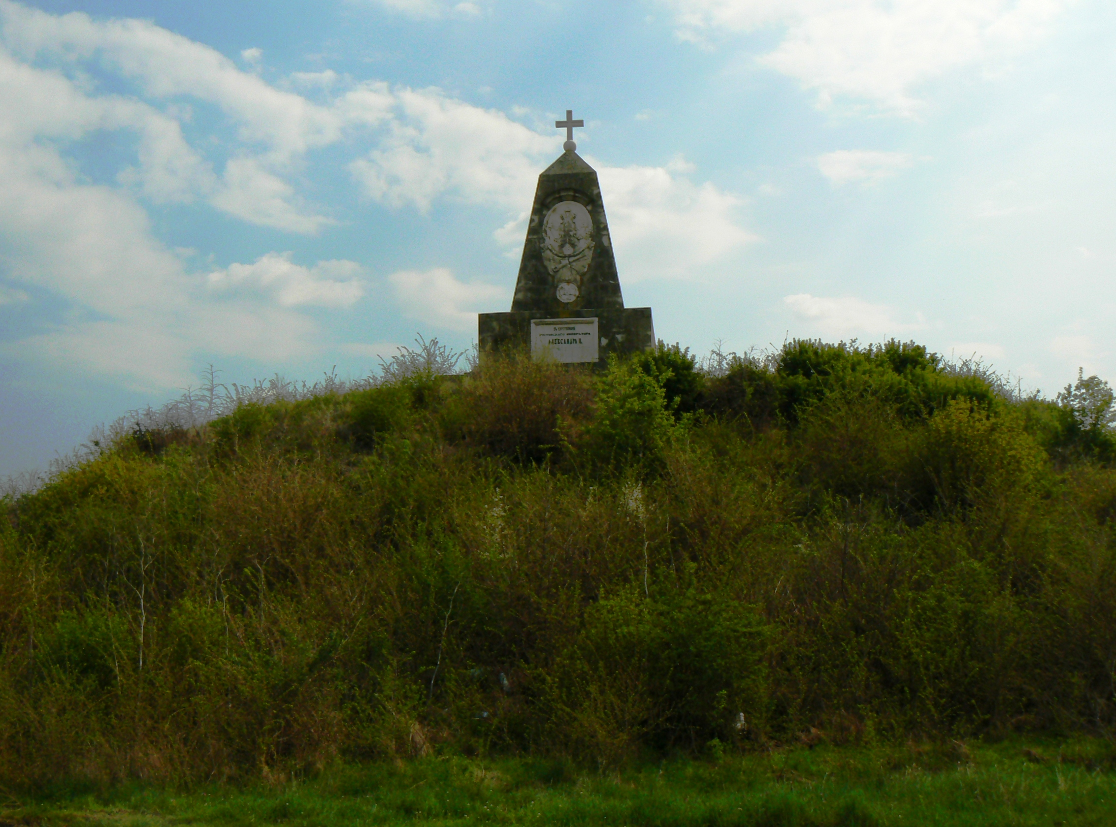 Memorial to the Russian Lieutenant-colonel Pavel Kalitin near the village of Kalitinovo, Bulgaria